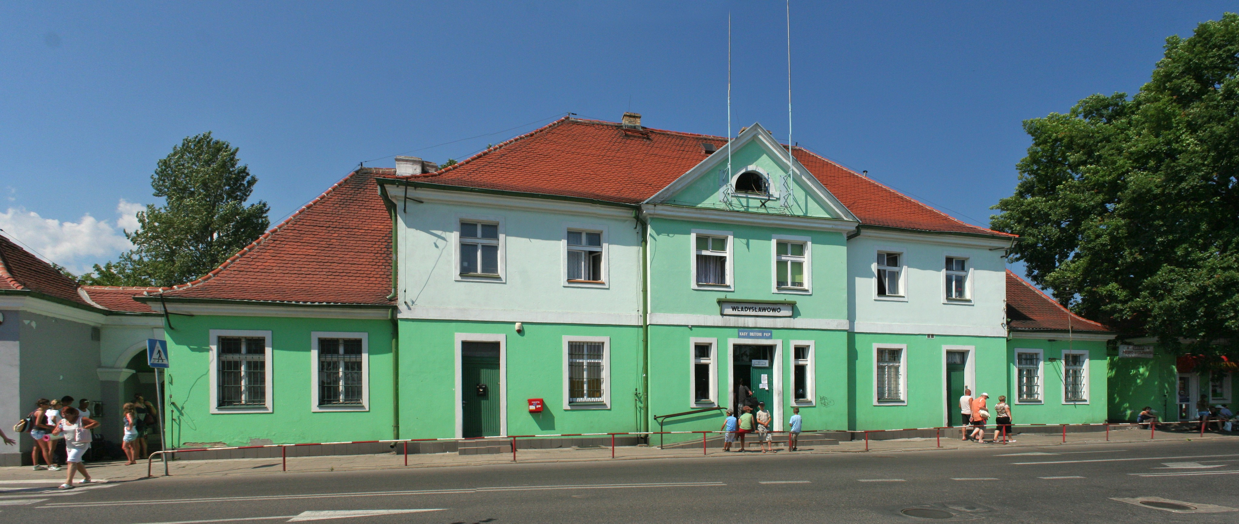 Train station in Władysławowo.